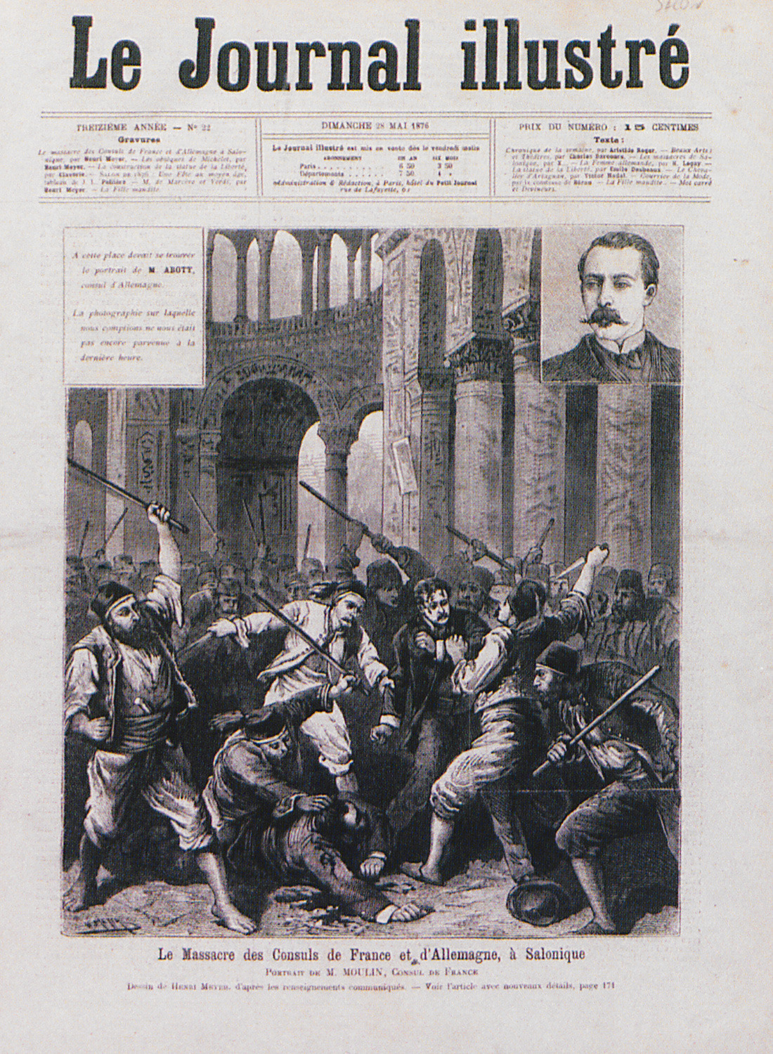 Front page of "Le Journal illustré", 28 May 1876.